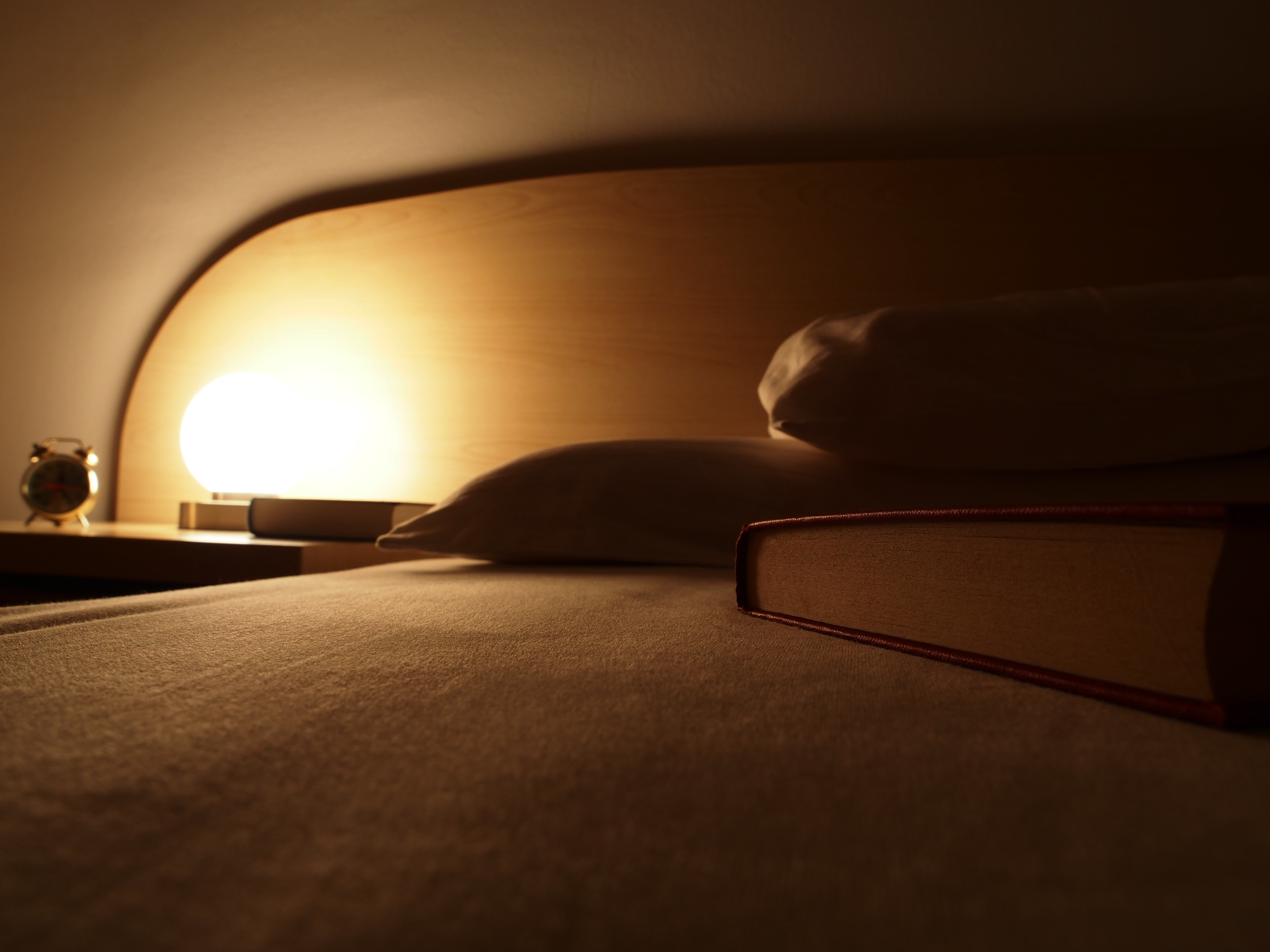 Nigth reading has benefits to calm the nerves by eliminating excess sound and vision stimulus.